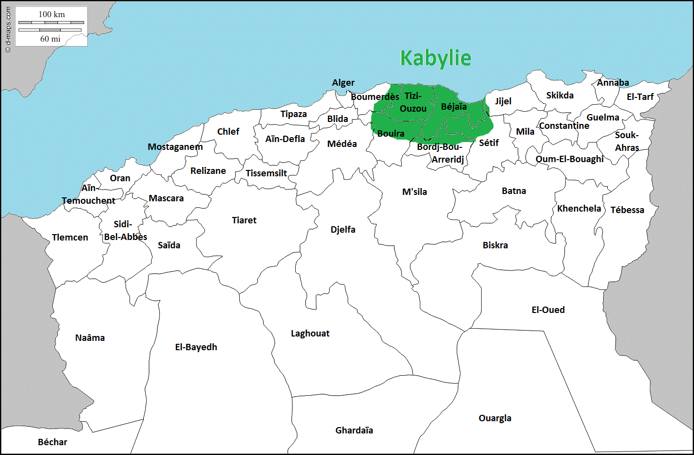 situation of Kabylia in north Algeria